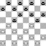 Tabia draughts opening "Kosyak" in russian checkers